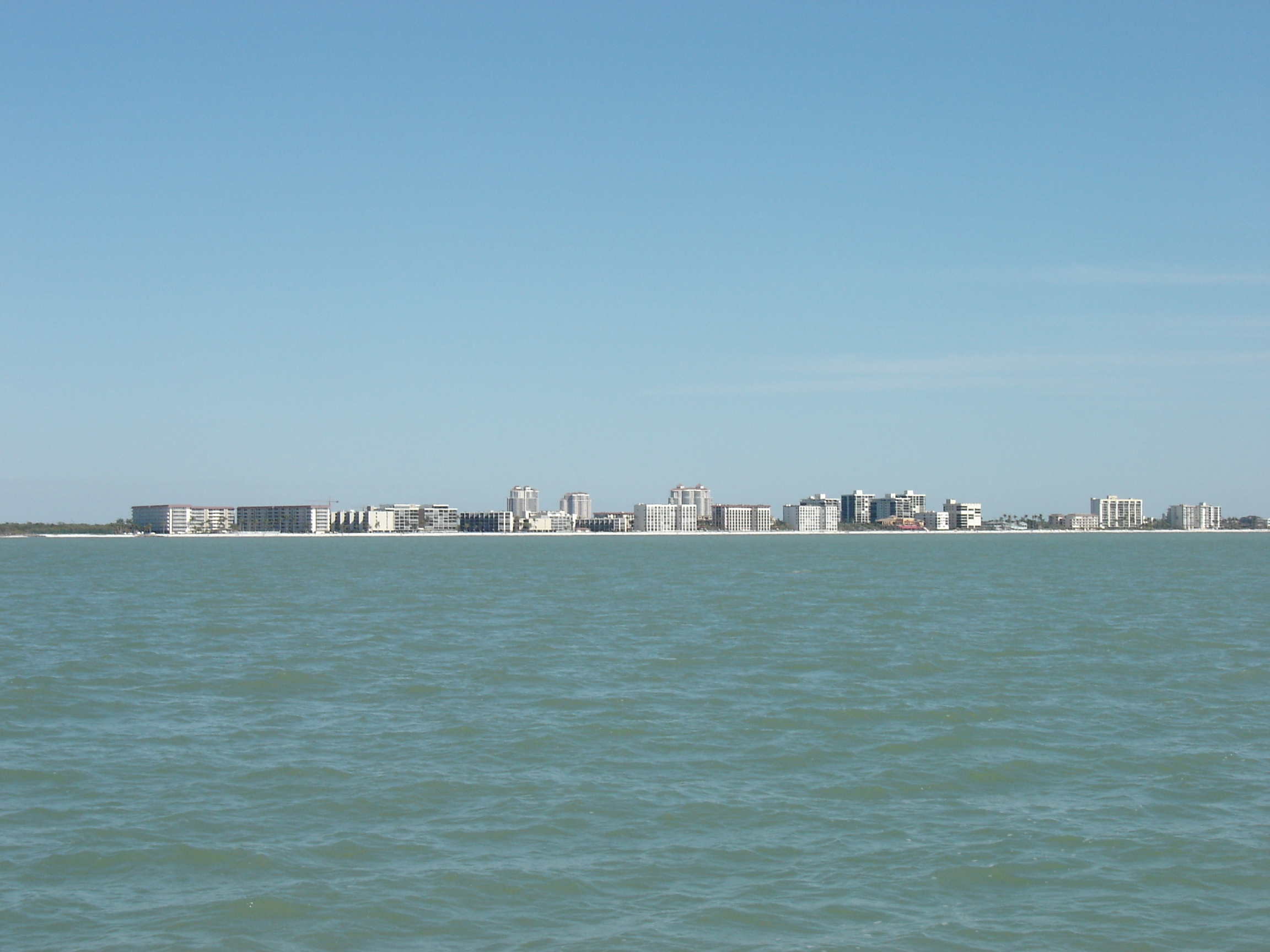 Jim Williams, Bonita Springs, FL, 3/02/05